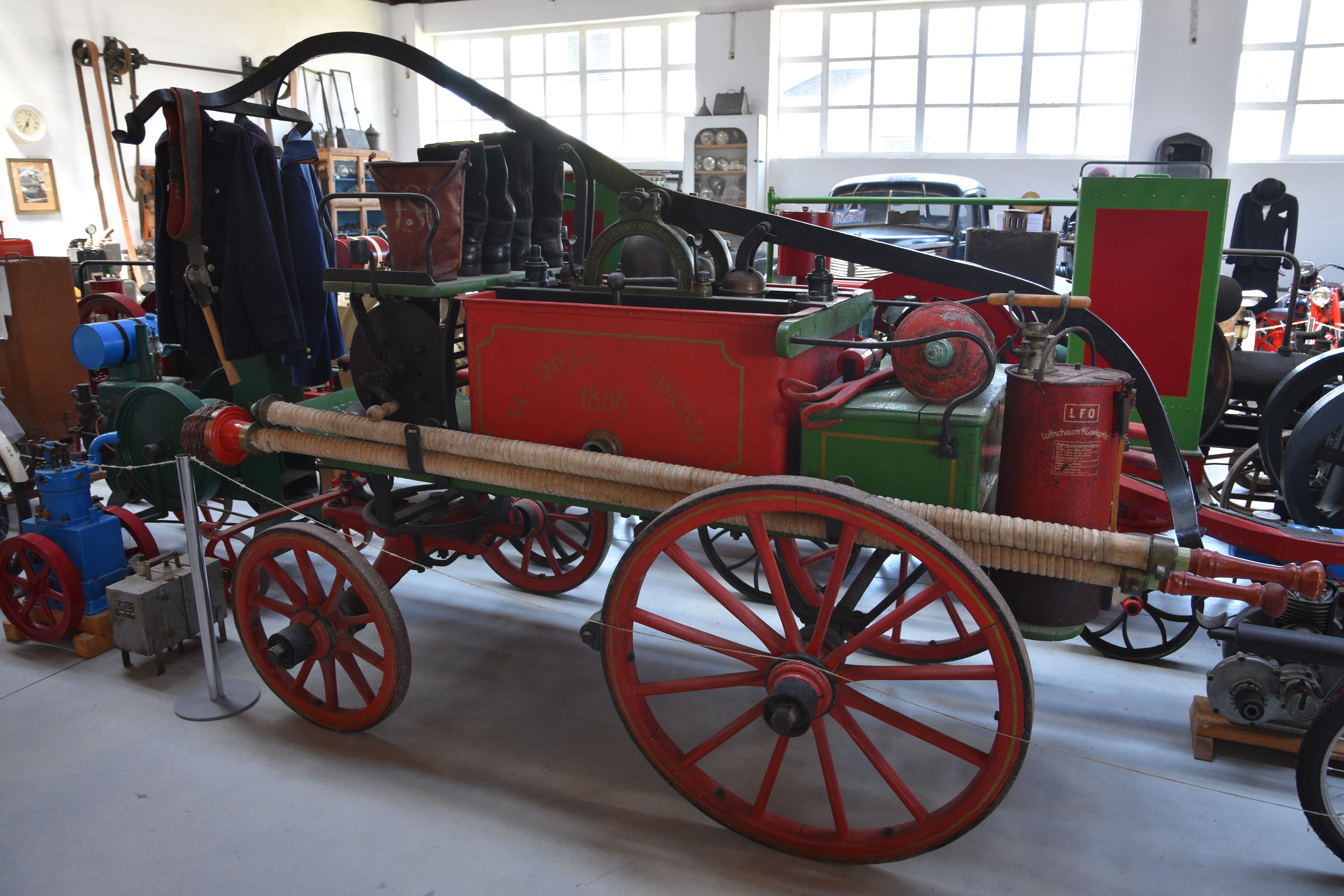 Technical Museum Telč